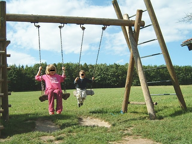 Children on a playground in the Vogelsberg in Hessia (Germany)